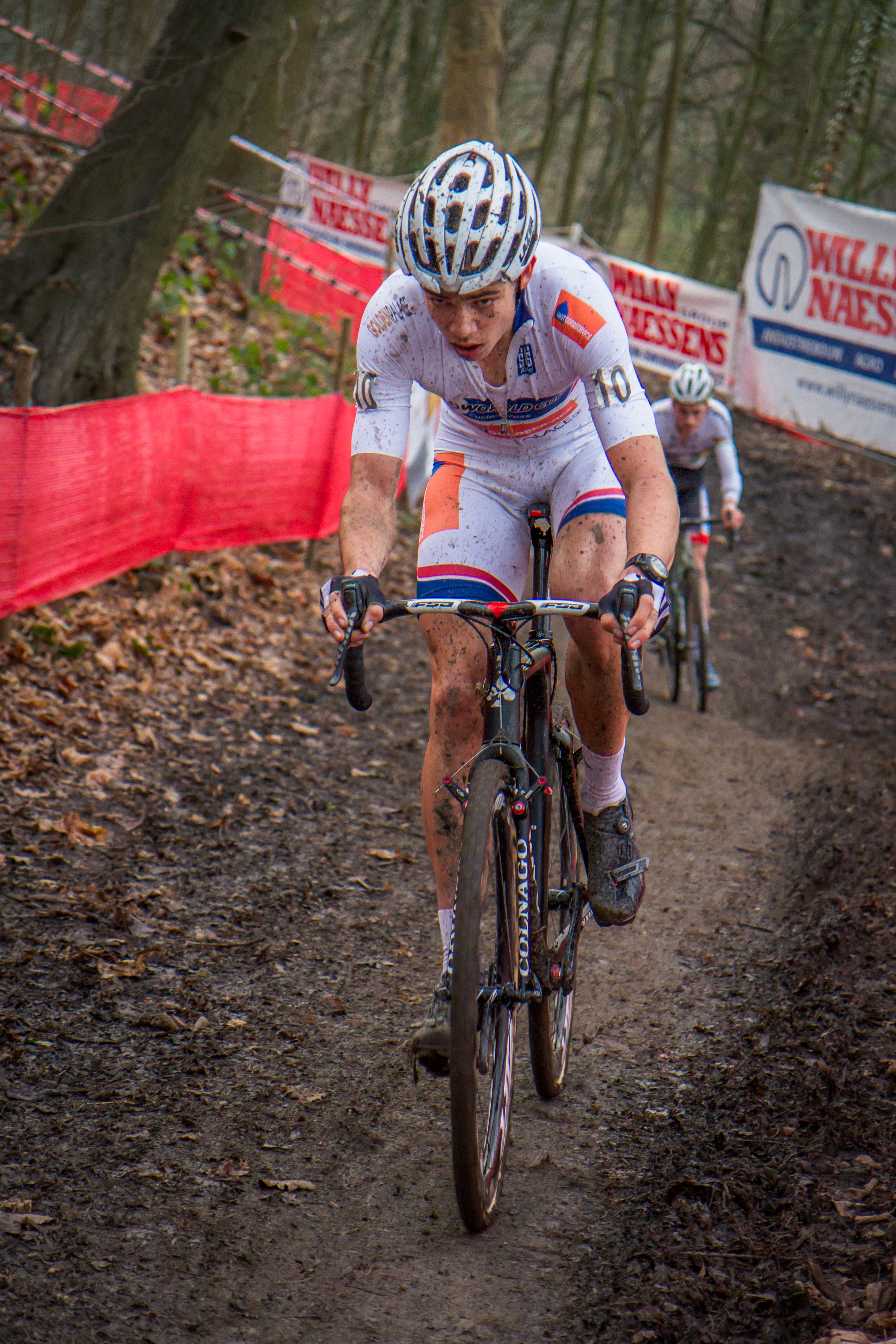 Wout Van Aert (BEL), wearing the World Cup leader's jersey, in front of Mathieu van der Poel (NLD), wearing the World Champion's jersey. UCI Cyclocross World Cup, Namur, 2015.